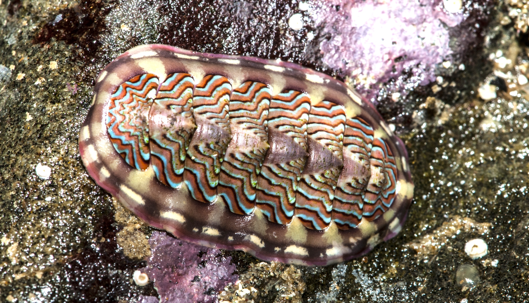 One of the prettiest of the chitons, in my opinion. You have to search for this one but if you look in the right places, you will enjoy the colors seen. Your camera will pick up on the colors more than seeing it in person. It feeds primarily on pink coralline algae. Its main enemies are the purple sea star (Pisaster ochraceus). The color is known to be modified by diet as they are pinker when eating corraline algae and greenish when feasting on diatoms. ID from Intertidal Invertebrates of the Monterey Bay Area by Marlin Harms.